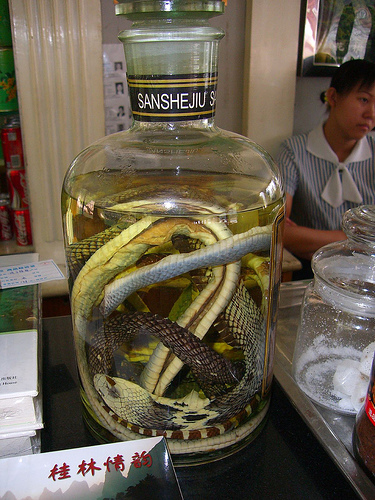 ormvin